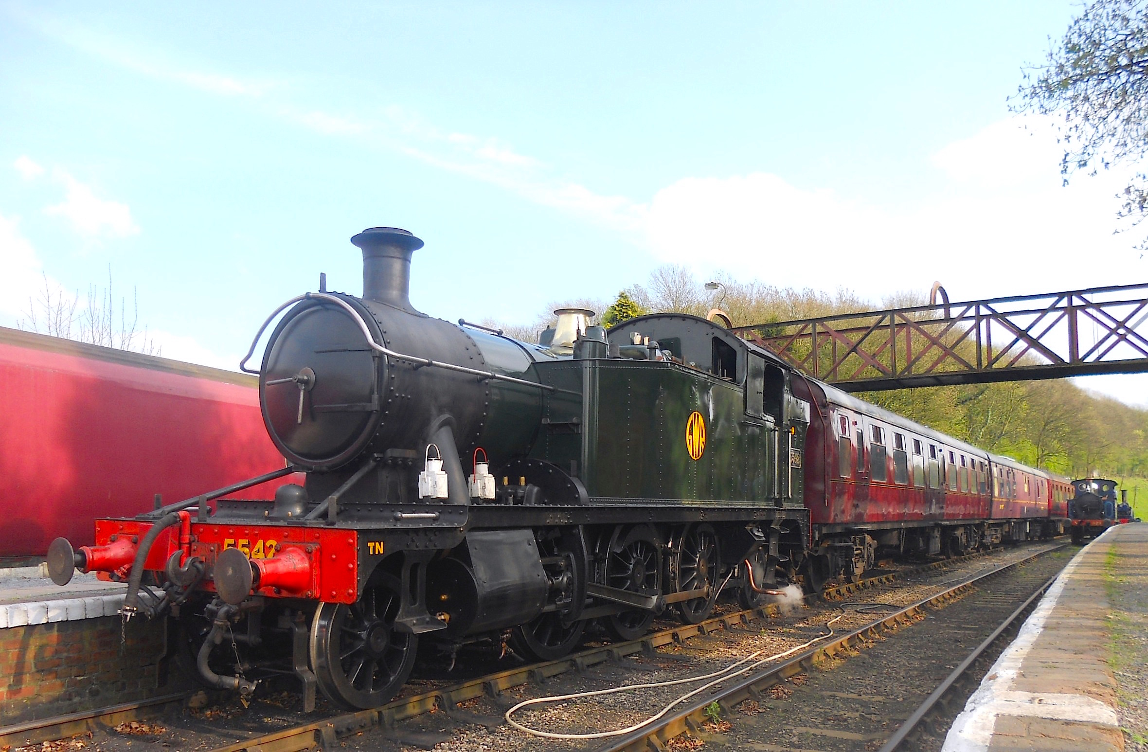 A scene from the Spring 2014 Steam Gala at Shackerstone Station on the Battlefield Line Railway